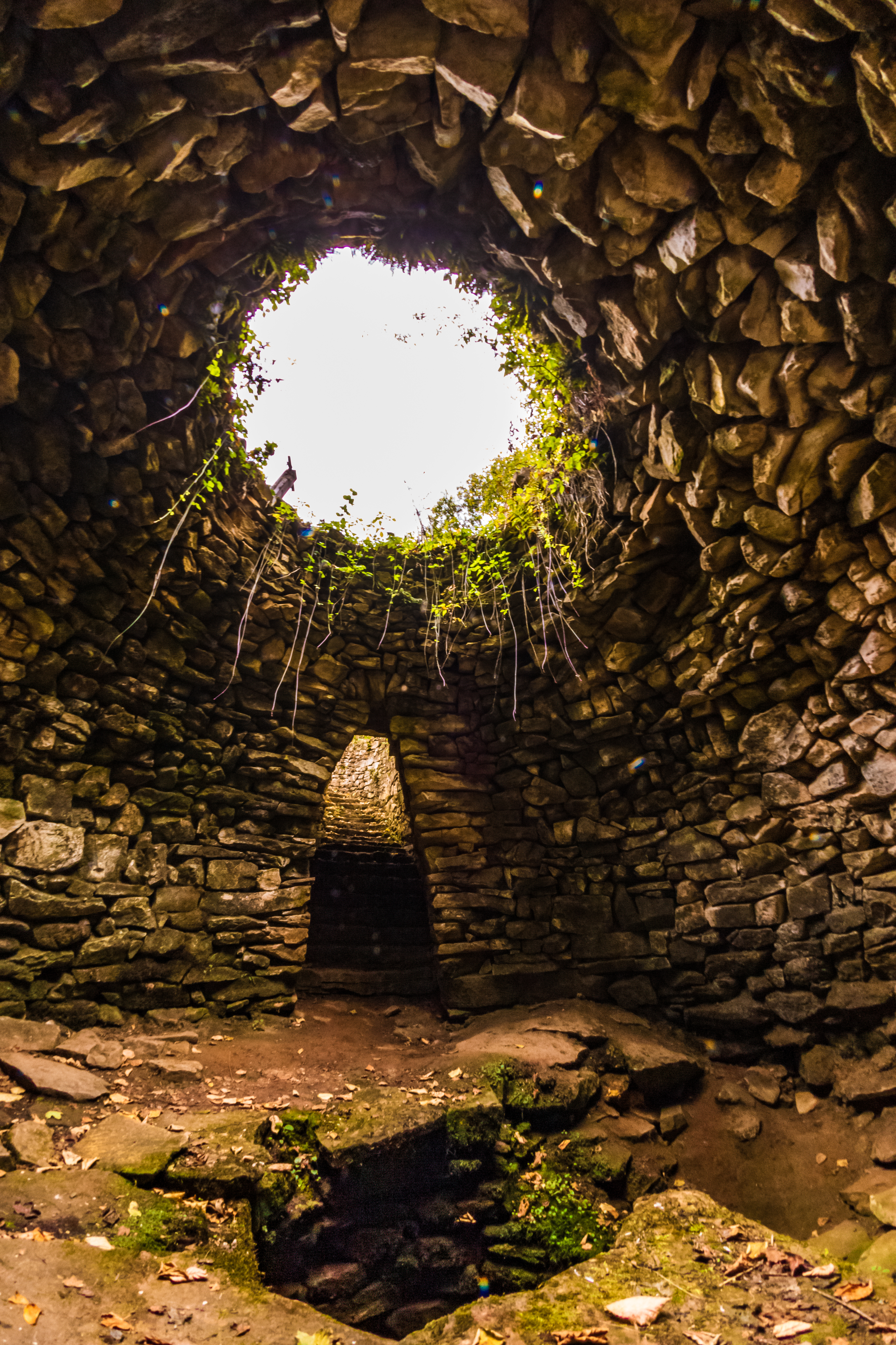 Opeion_tholos_Garlo_pozo_sacro_inerior